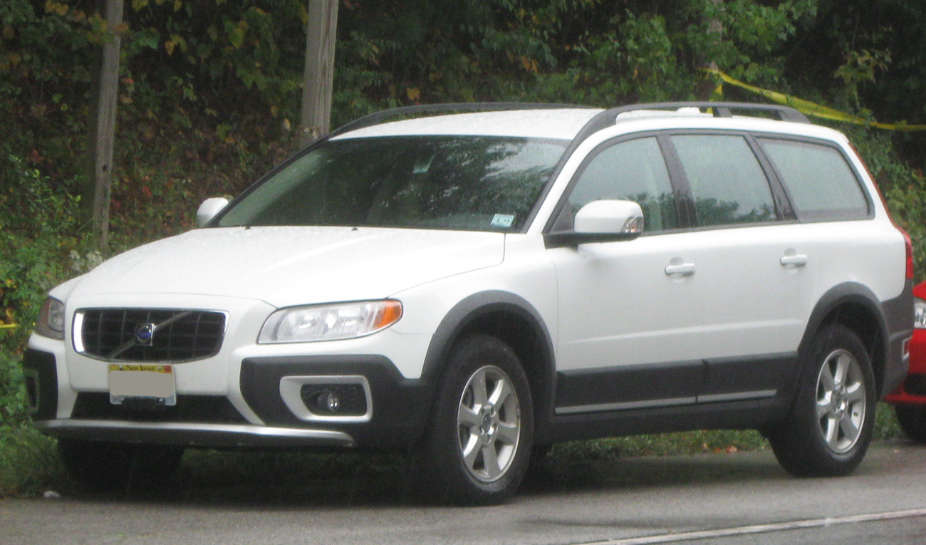 2008-2010 Volvo XC70 photographed in College Park, Maryland, USA.